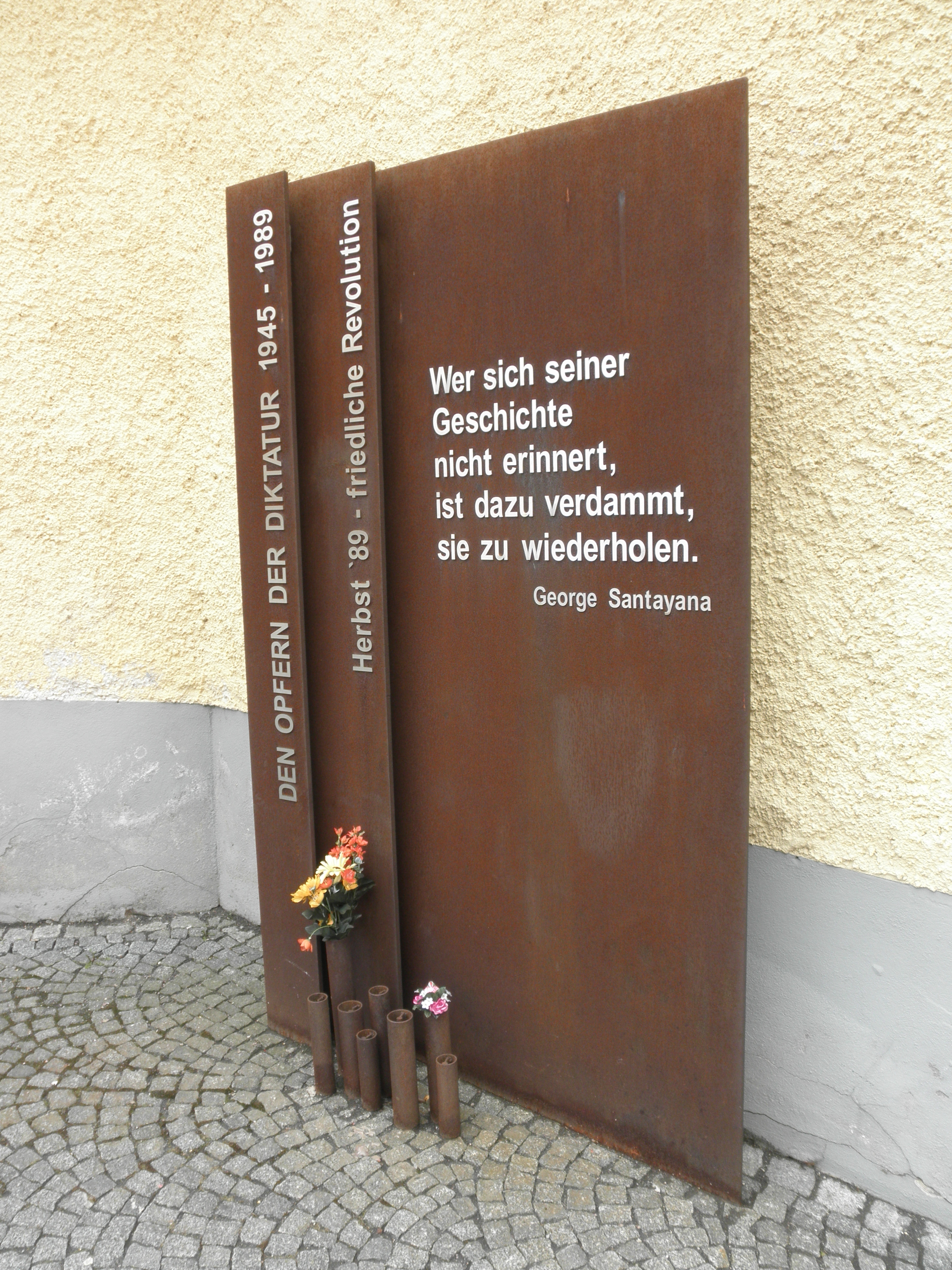 Monument for victims of dictatorship 1945-1989 in Ilmenau in Thuringia